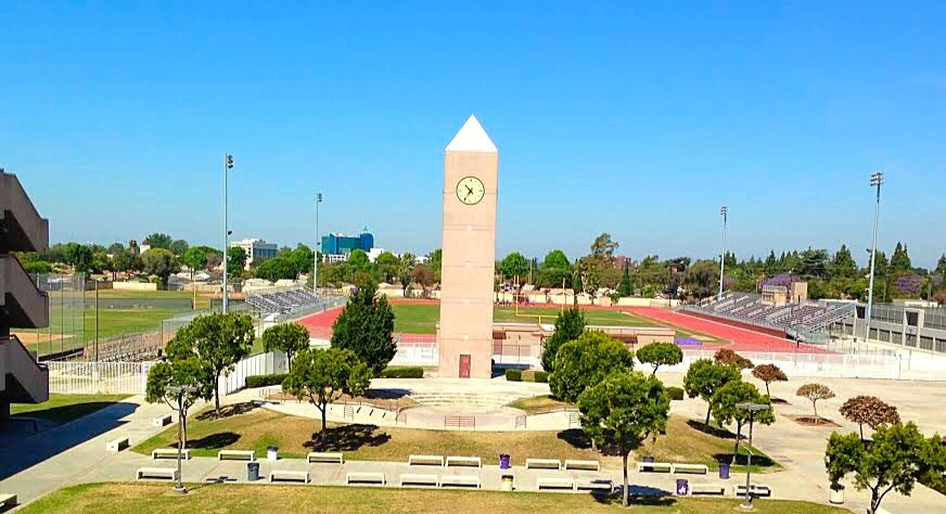 LHS Clock Tower from the 3rd floor.